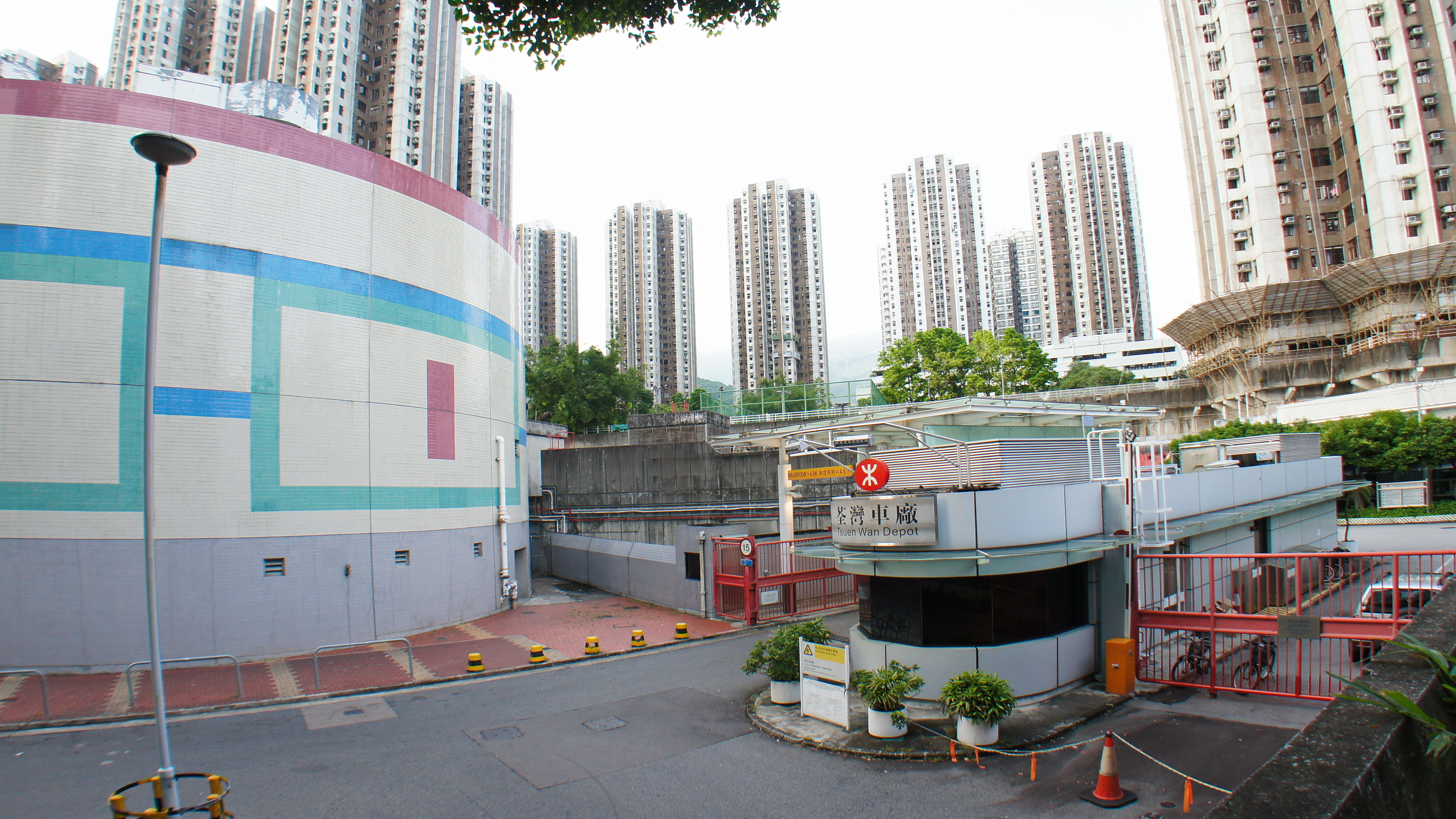 Tsuen Wan Depot, Mass Transit Railway, Hong Kong.